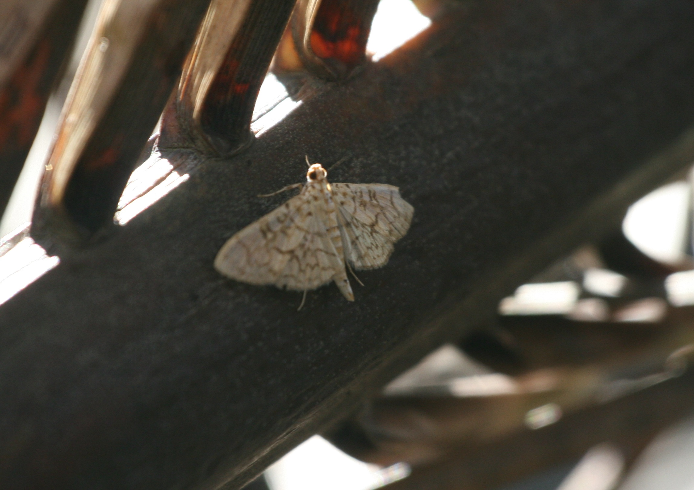 Moth sp. in Kandalama, Sri Lanka - 11